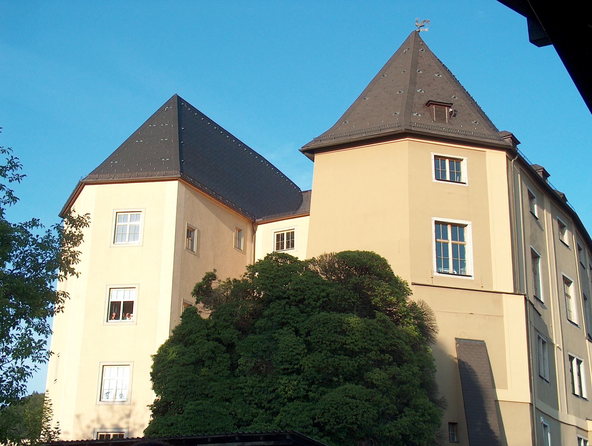 Schloss Steyregg in Austria